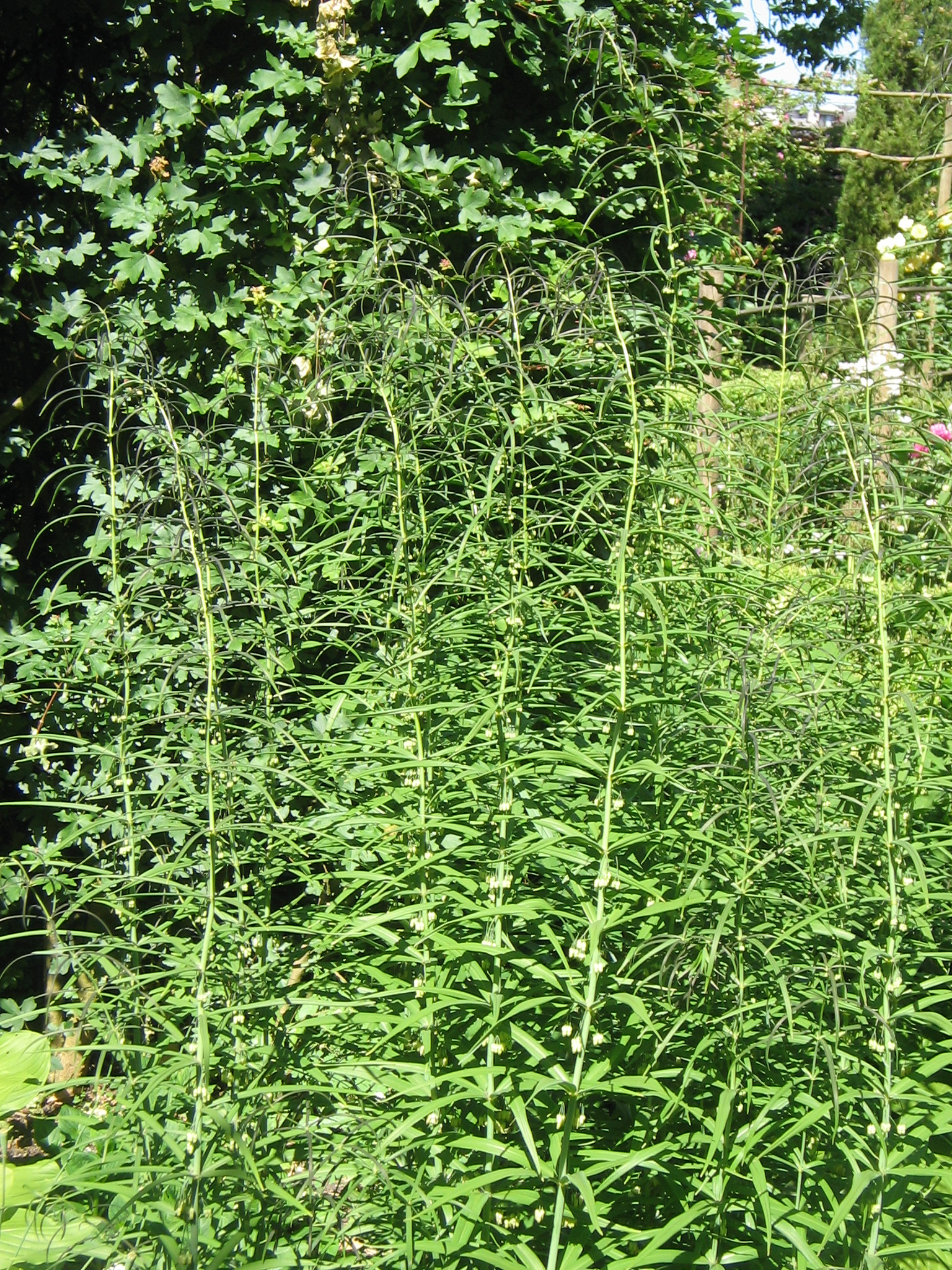 Polygonatum verticillatum 'Giant One'